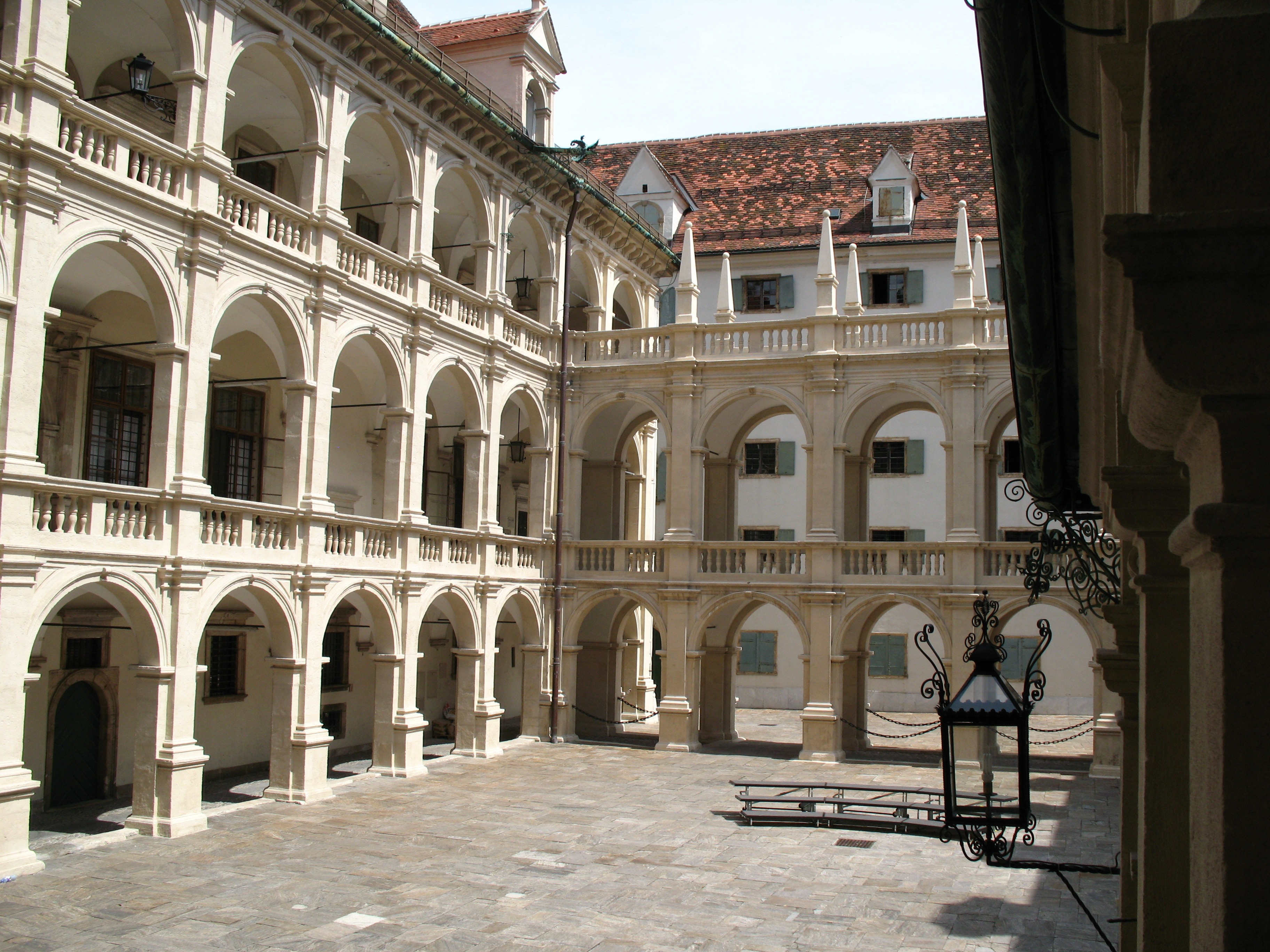 Countryhouse yard, Graz, Austria